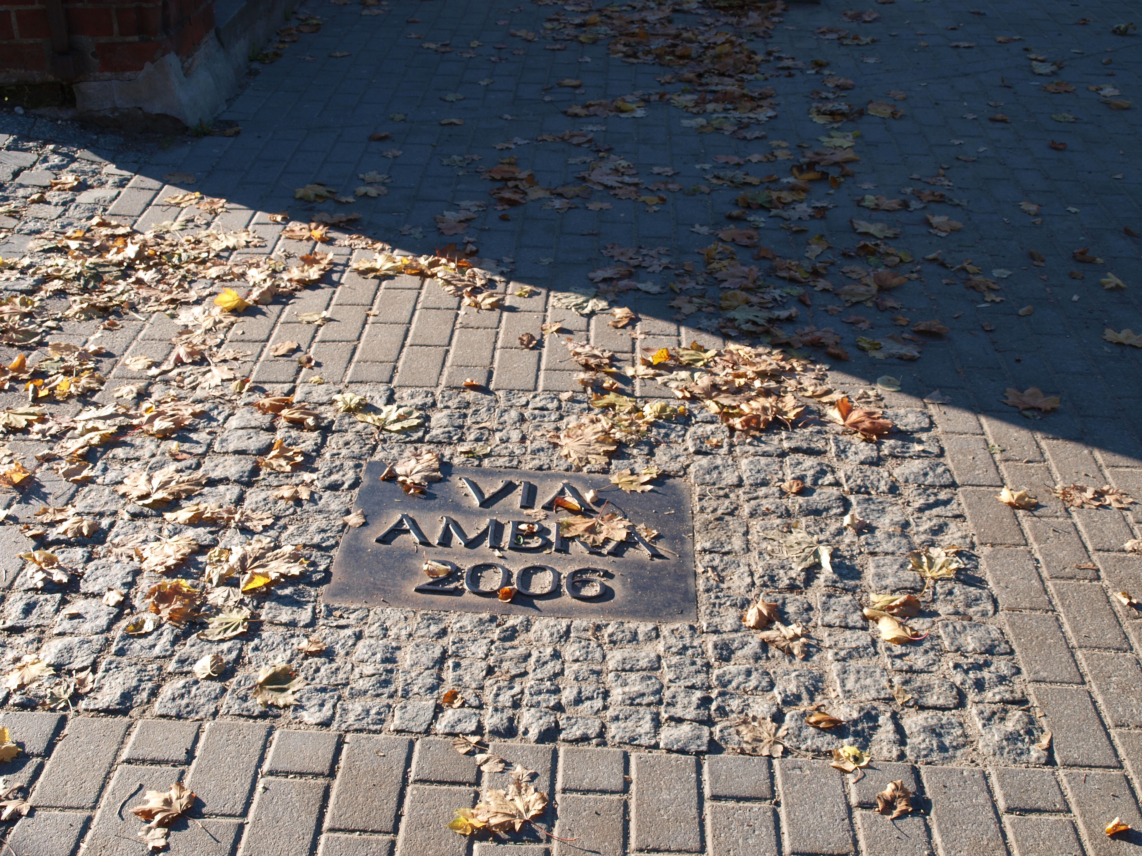 Amber Route in Pruszcz Gdanski